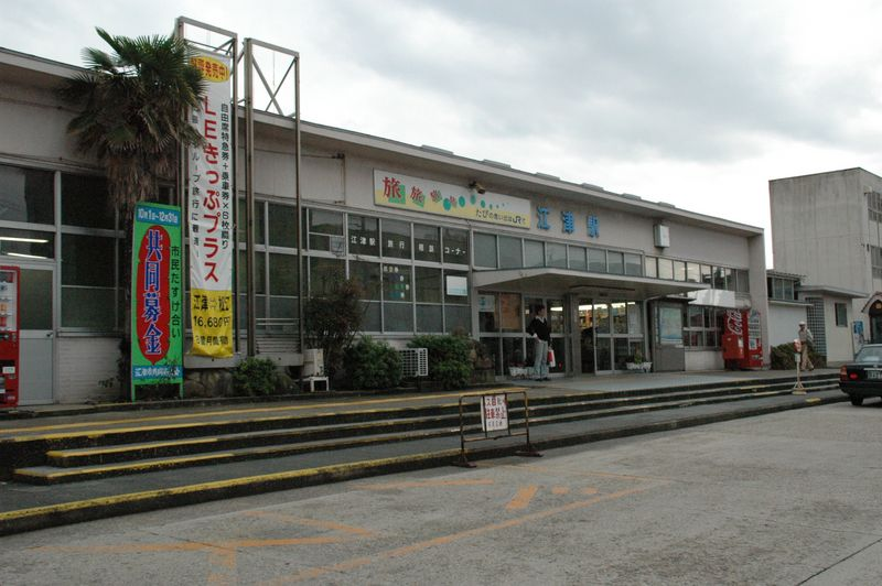 West Japan Railway Company, San'in Main Line and Sankō Line, Gōtsu Station. photo by 2005.10.8